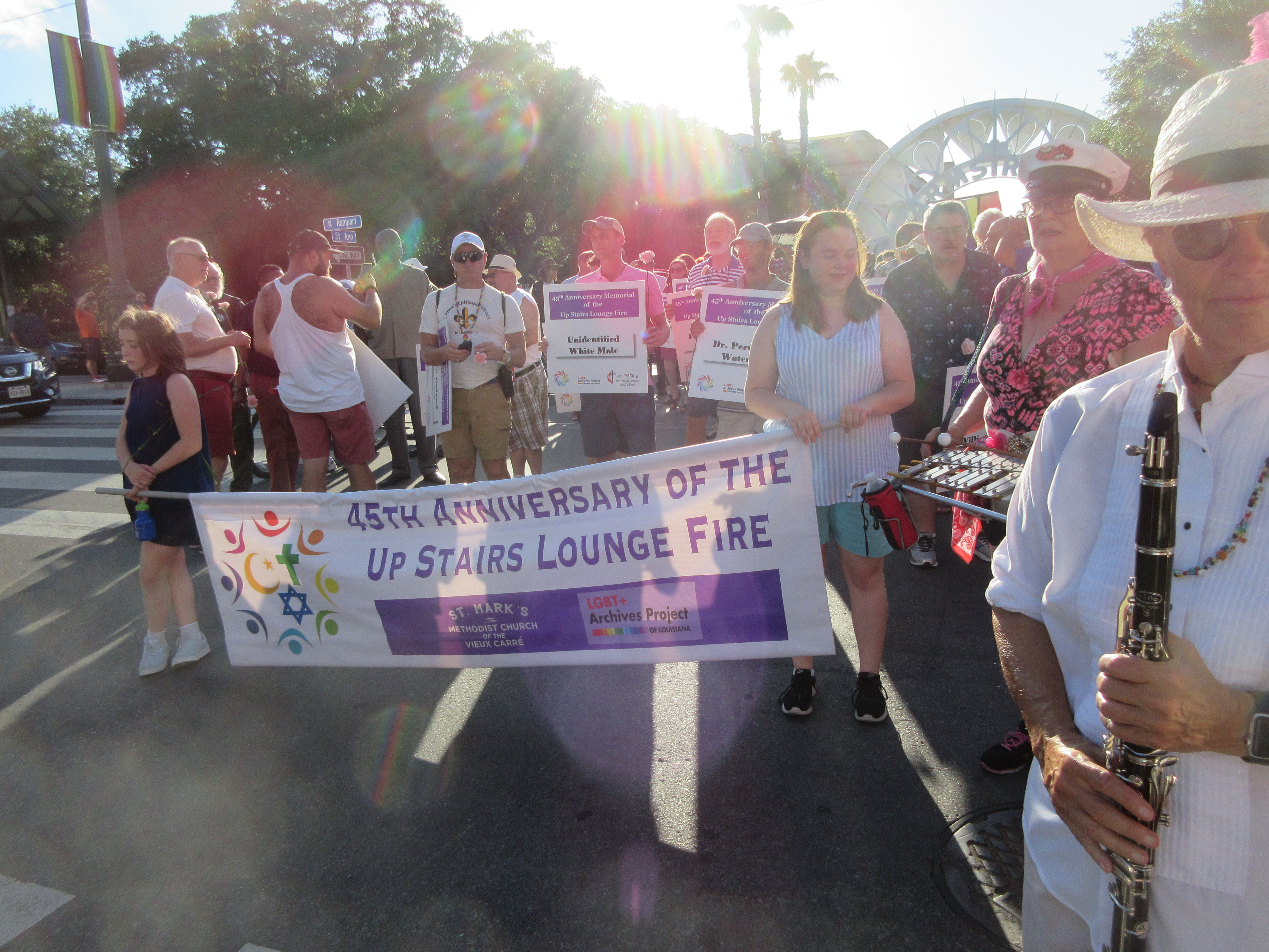 New Orleans. Memorial procession on 45th anniversary of Upstairs Lounge firebombing. Photo by Infrogmation of New Orleans, 24 June 2018. Free reuse with author attribution in accordance with any of the licenses listed by the author/photographer. Reuse without photo attribution is a violation of copyright.